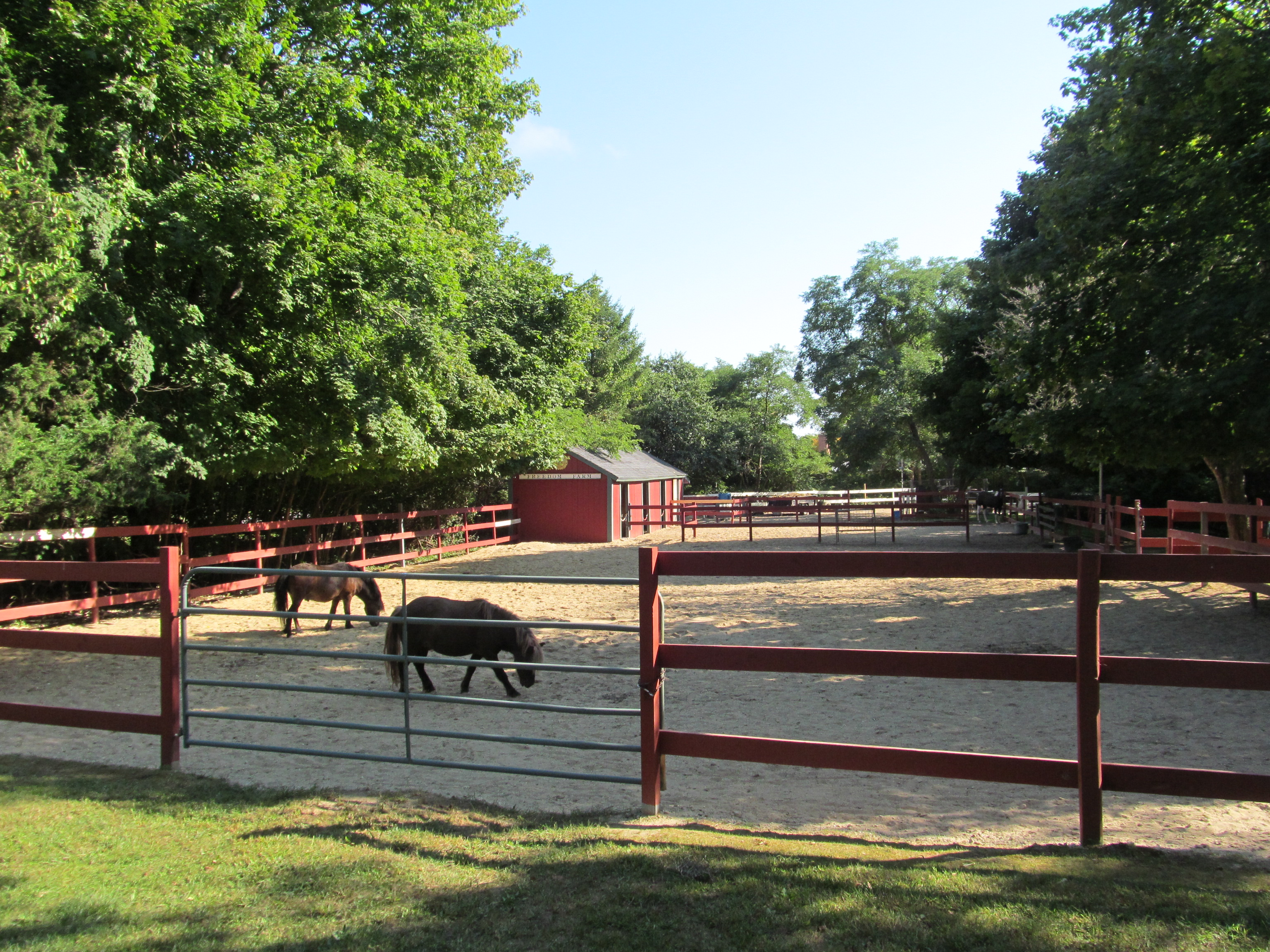 Freedom Farm, Marstons Mills Massachusetts